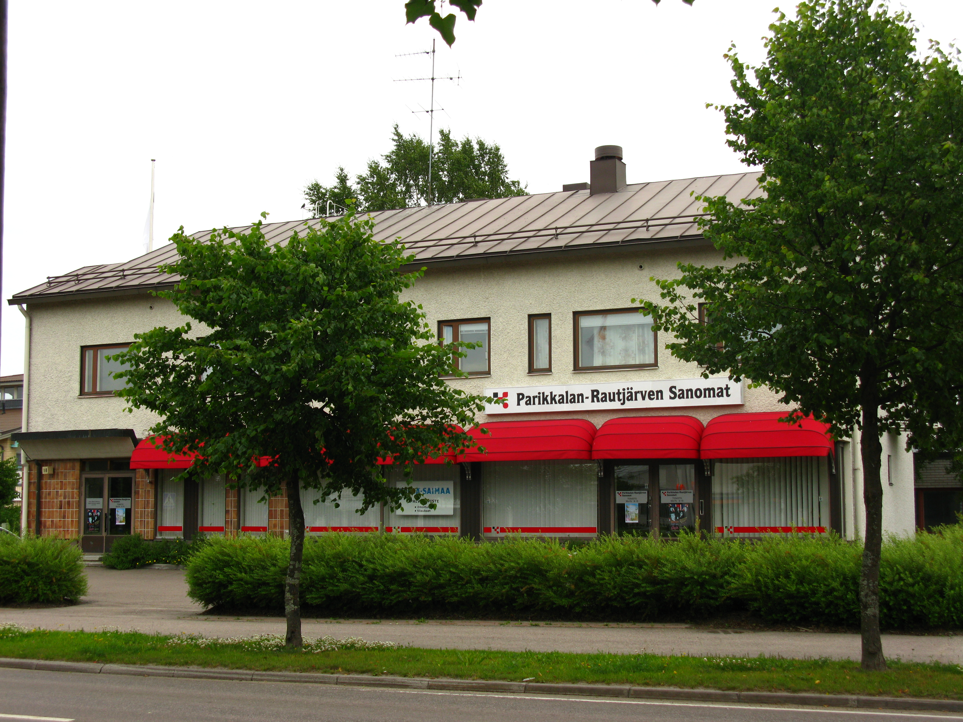 The building of the newspaper Parikkalan-Rautjärven Sanomat in Parikkala, Finland